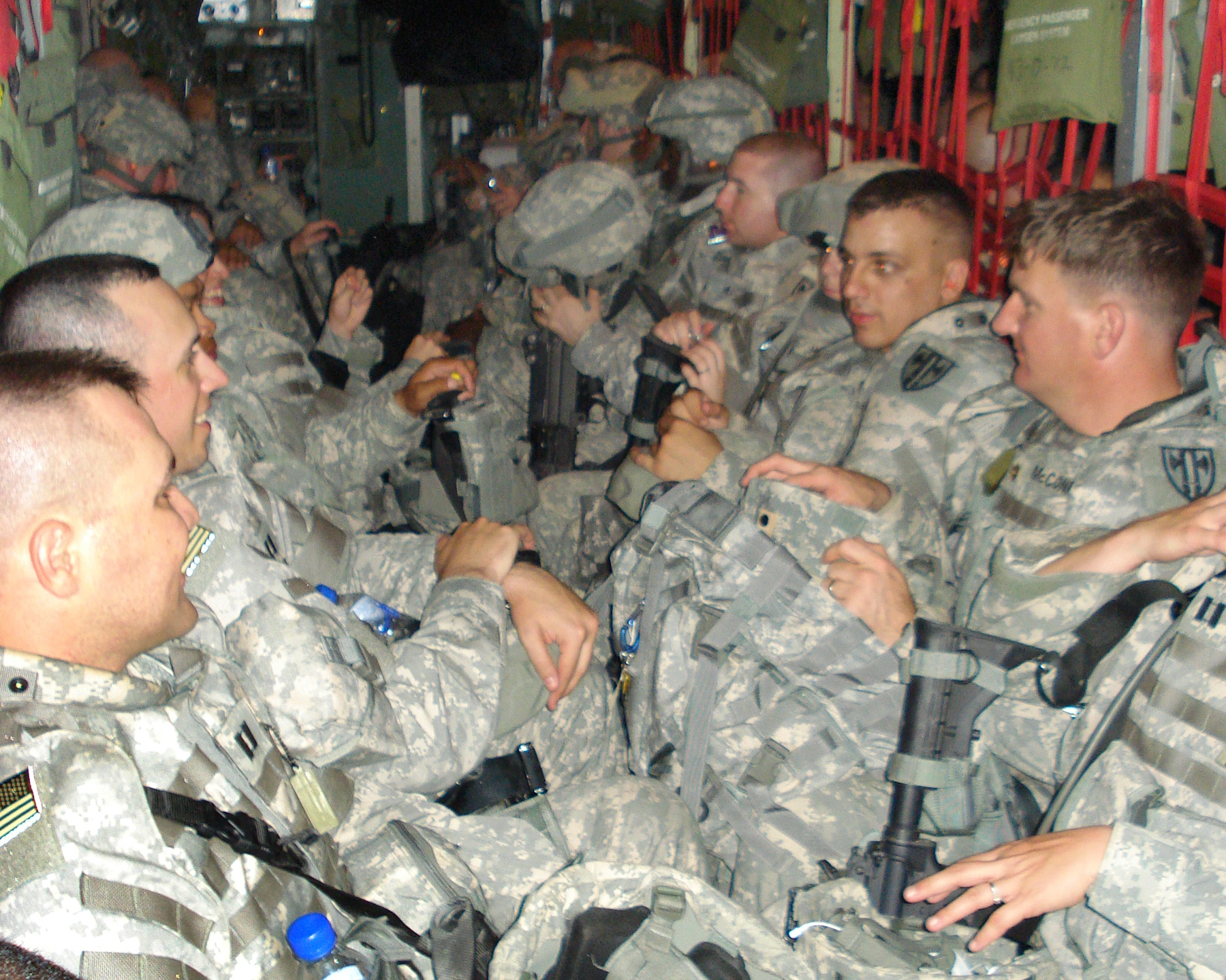 Soldiers from U.S. Army Europe's Headquarters and Headquarters Company, 18th Military Police Brigade await the departure on their U.S. Air Force flight from Kuwait into Baghdad International Airport Oct. 13 as the unit begins a 15-month deployment in Iraq.